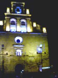 Music concert hall in Bilbao la Vieja